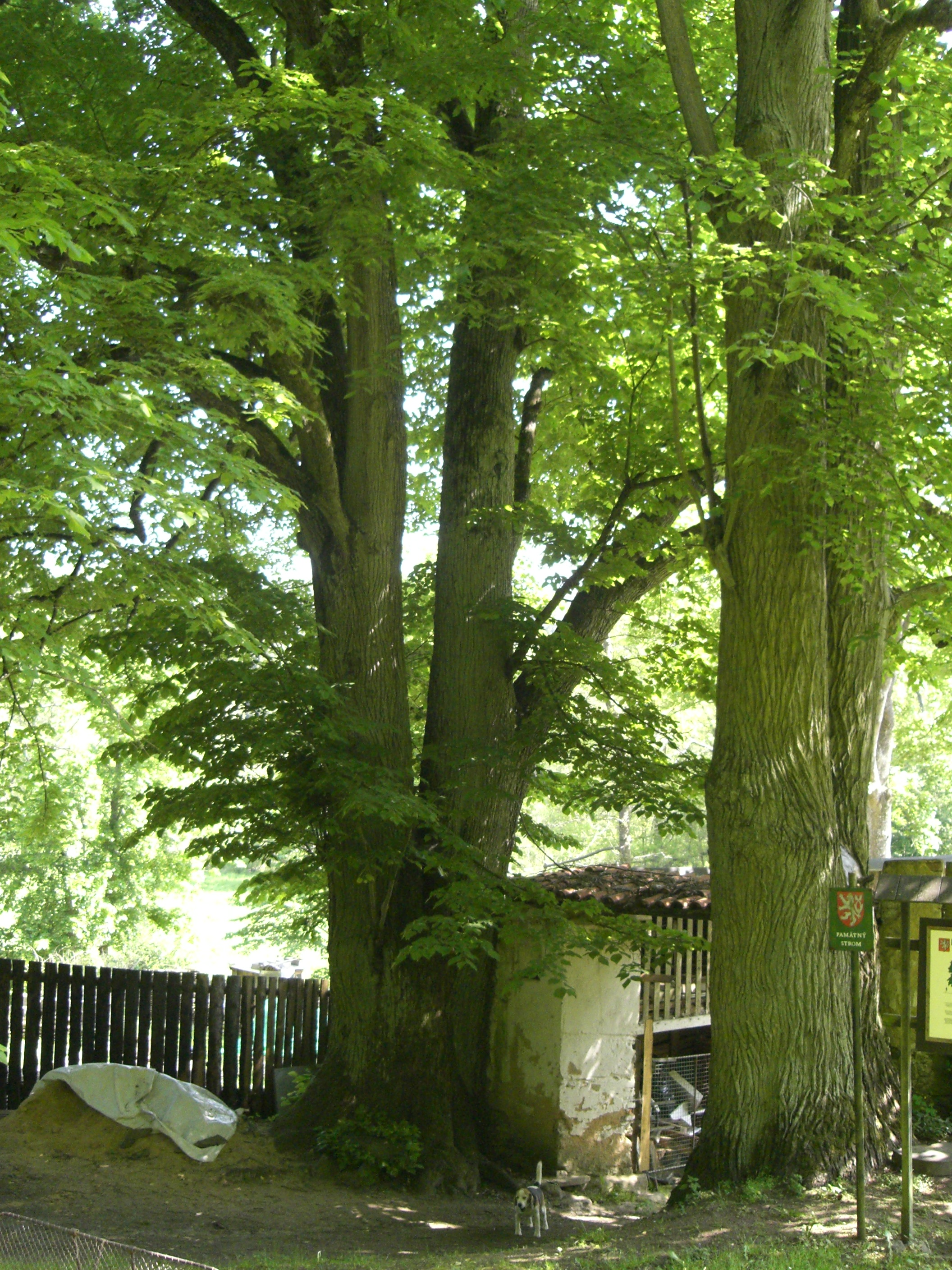 Protected trees called Lípy u Tabákového mlýna in Slavkovský les, Czech Republic.